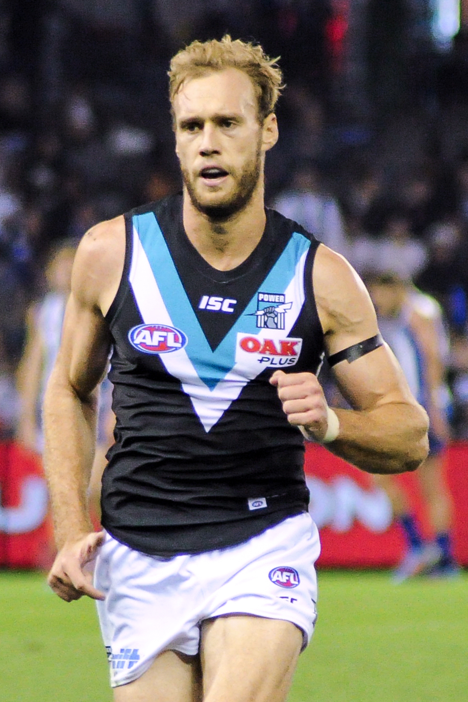 Jack Hombsch during the AFL round six match between North Melbourne and Port Adelaide on Saturday, 28 April 2018 at Etihad Stadium in Melbourne, Victoria.